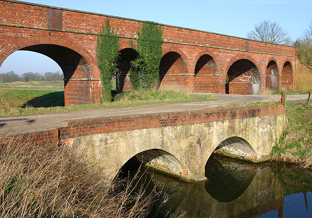 Folly Drain Viaduct: The Axholme Joint Railway's viaduct over the Folly Drain (visible) and the South Engine Drain (third arch from right). The railway is now disused. A modern farm access bridge is in the foreground.